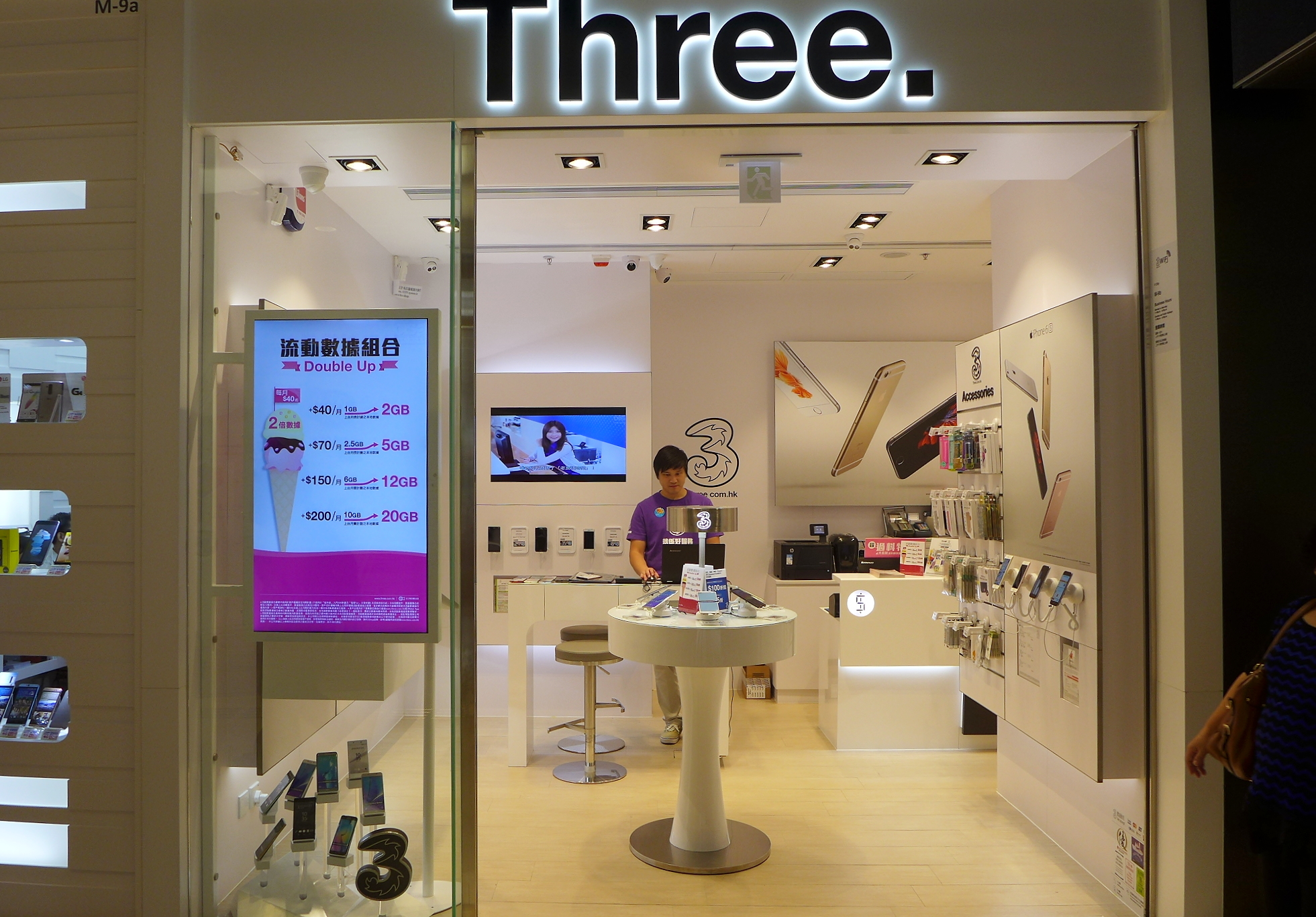 3 Shop in V city